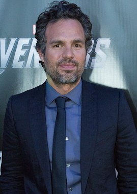 Mark Ruffalo at the Toronto premiere of Marvel's The Avengers.